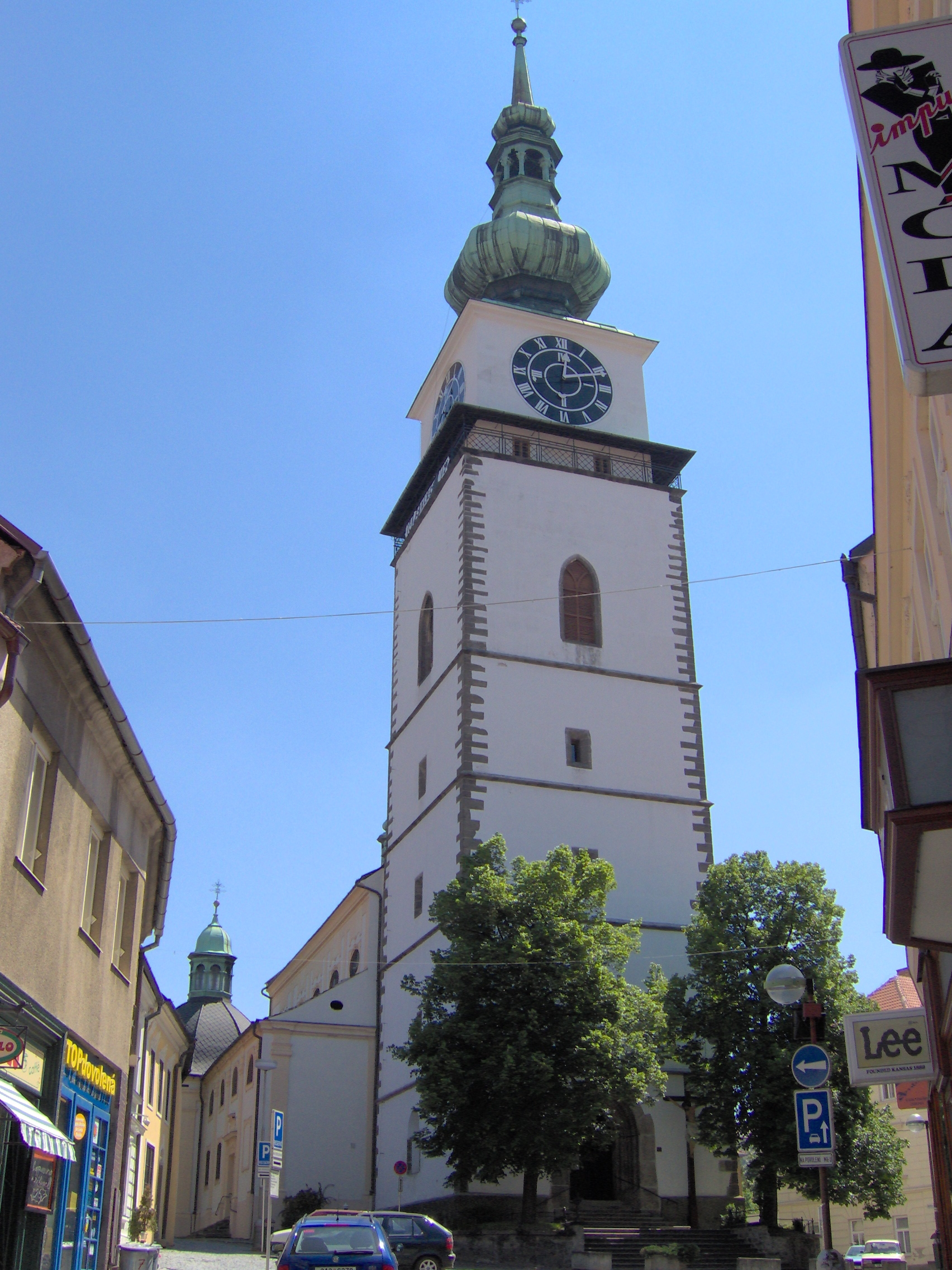 Church of St. Martin in Třebíč